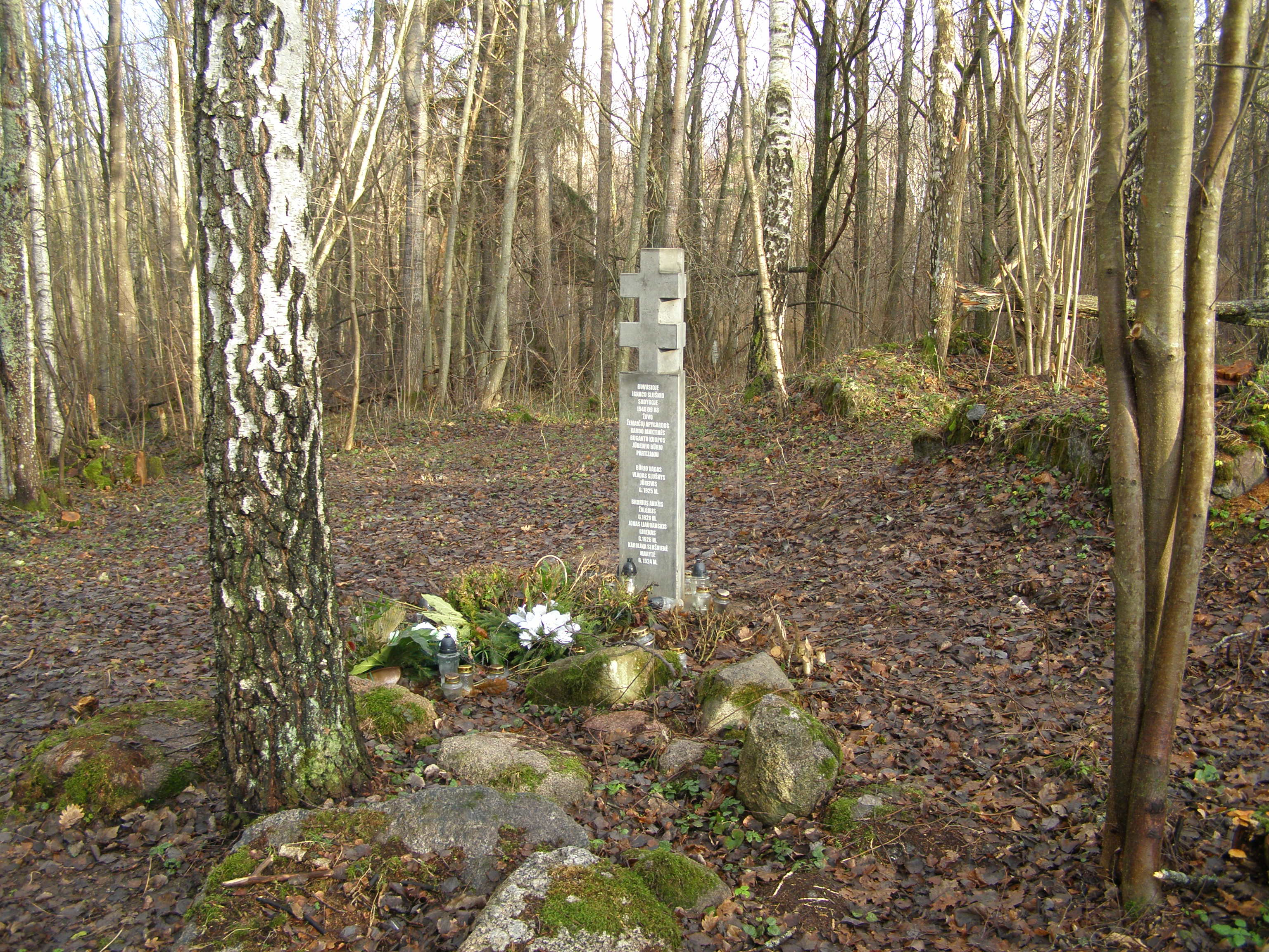 Nausodis, Kretinga district, LithuaniaLietuvių: Partizanų atminimo vieta, Nausodžio k., Kretingos rajonas, Lietuva